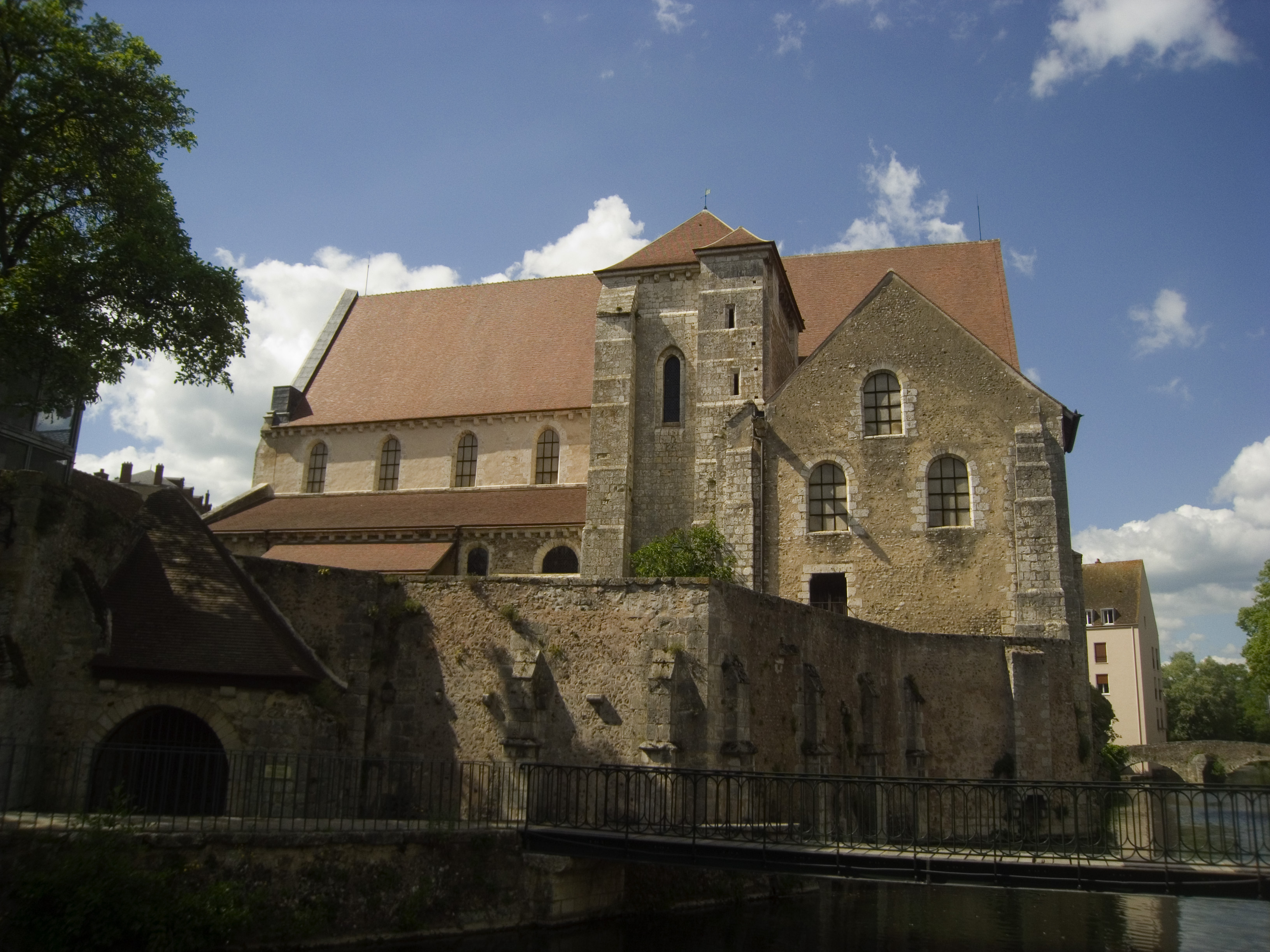 Collégiale Saint-André, Chartres, France; South façade of the building, seen from the other bank of the river Eure. On the left of the picture, the Fontaine Saint-André.